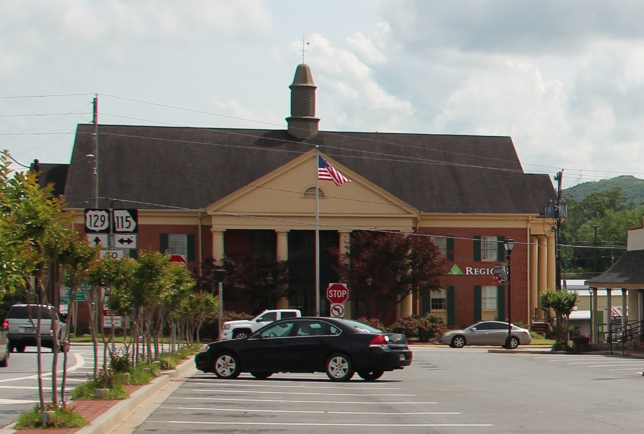 Regions Bank in Cleveland, Georgia